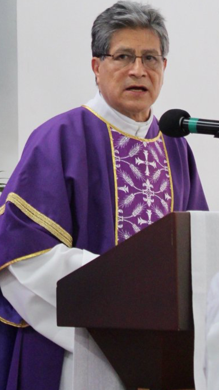 Unicah's rector.